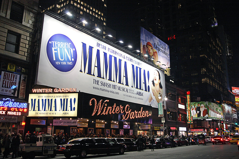 Winter Garden on Broadway, NY, New York City/Manhattan.